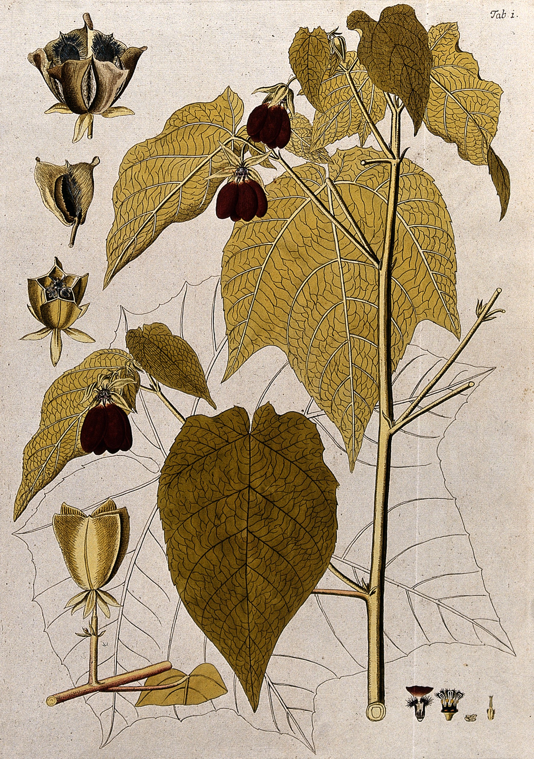 Ambroma augusta (L.) L.f.: flowering stem with separate fruit, sections of flower and fruit and uncoloured leaf. Coloured engraving after F. von Scheidl, 1776. Iconographic Collections Keywords: Nikolaus Joseph Jacquin; Franz Anton von Scheidl